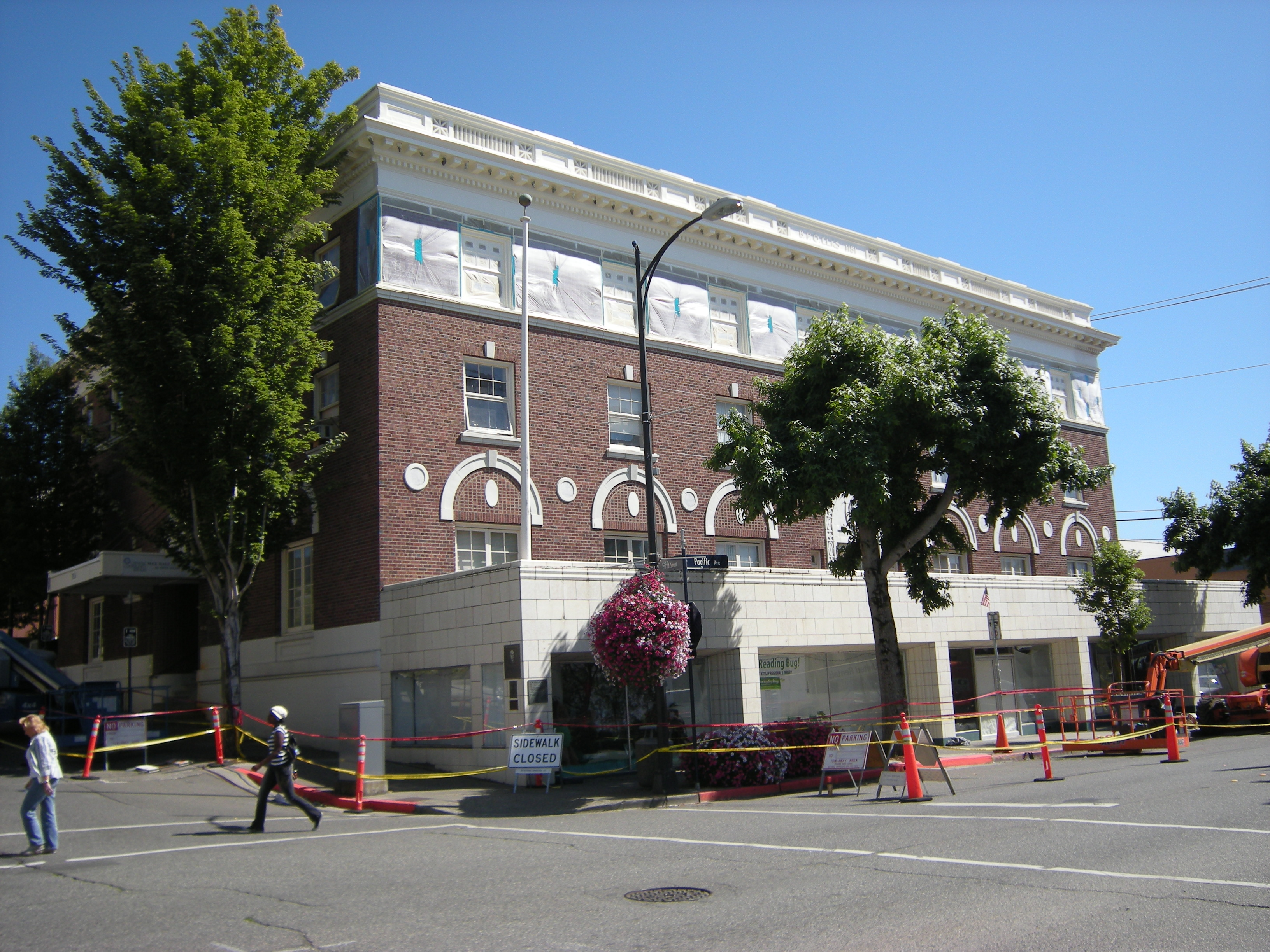 Catholic Charities' Max Hale Center, originally Bremerton Elks Temple Lodge No. 1181 Building, 285 Fifth Street, Bremerton, Washington.